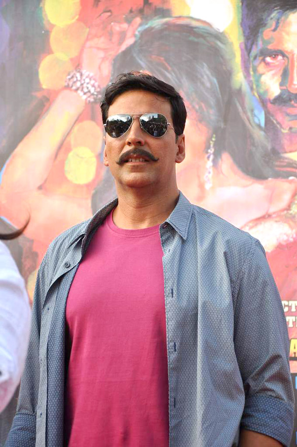 Sonakshi Sinha,Akshay Kumar,Prabhu Dheva From The Promotional rickshaw race for 'Rowdy Rathore'